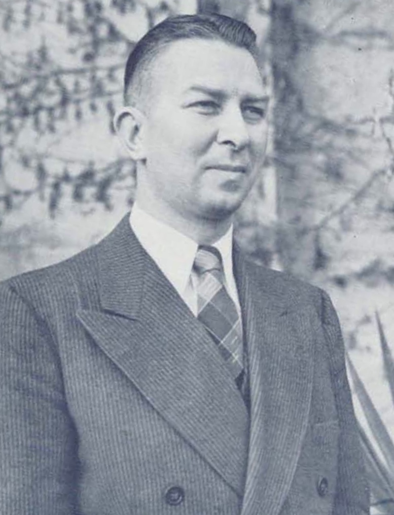 University of Oregon basketball coach Howard Hobson in 1944